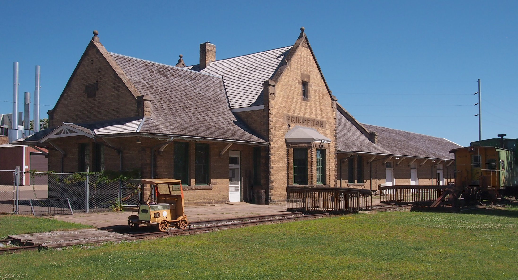 Princeton Depot, 101 S 10th St, Princeton, Minnesota, USA. Viewed from the northwest.